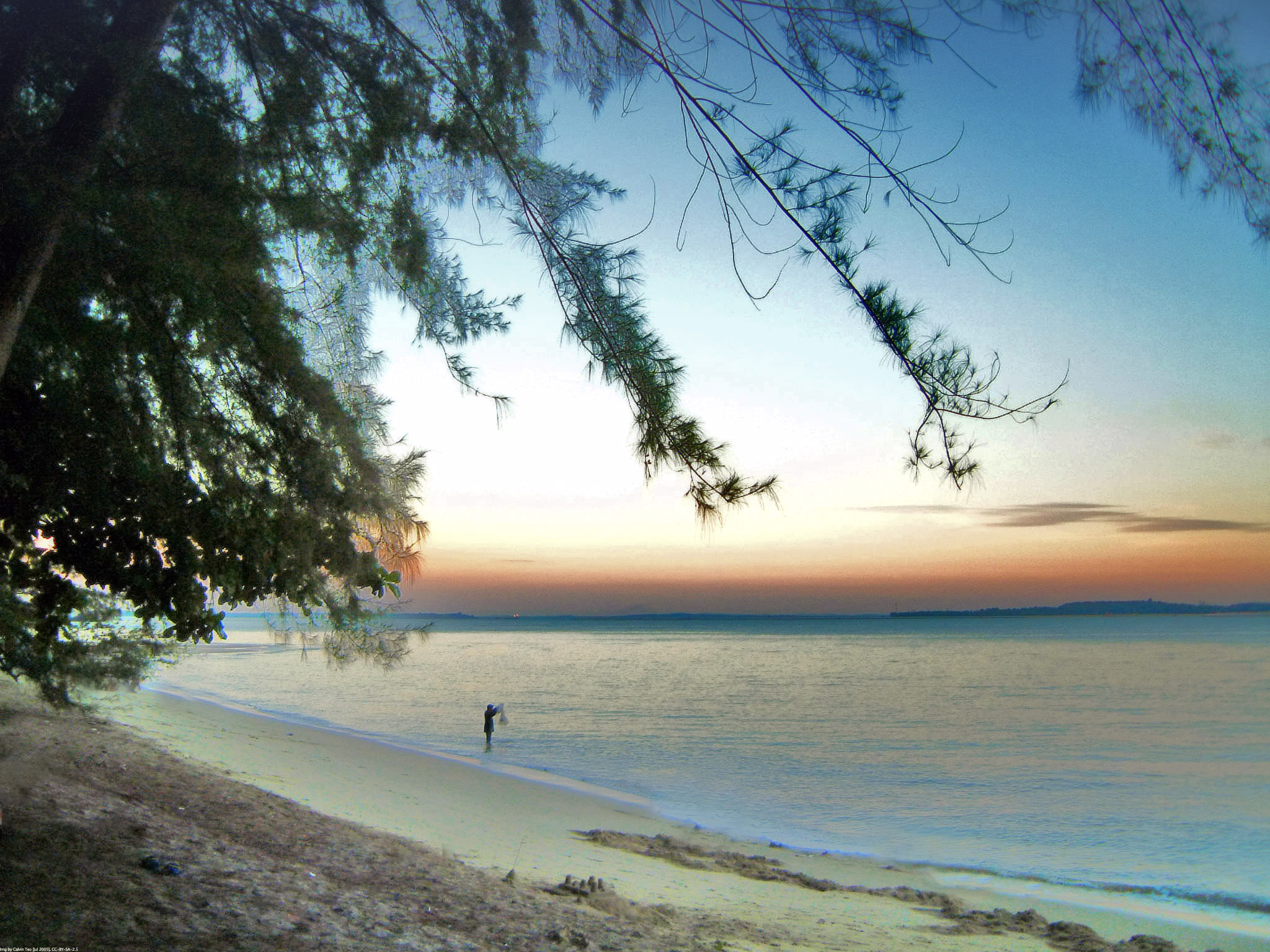 Sunset at Changi beach Park Changi Point, Republic of Singapore Img by Calvin C Teo